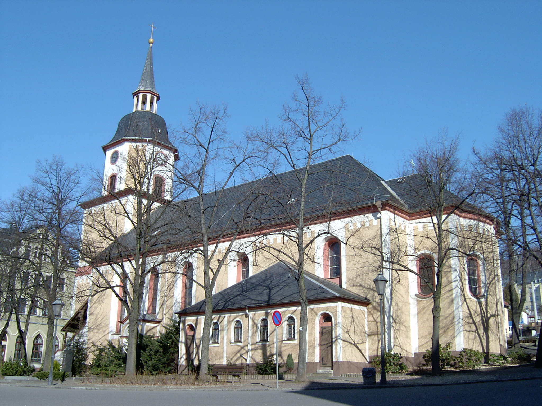 St Trinitatis church in Hohenstein-Ernstthal, Saxony, Germany